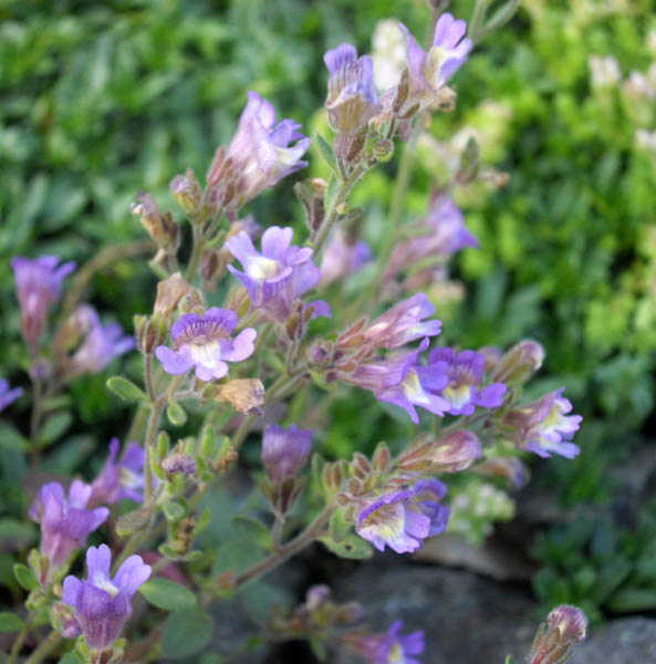 Chaenorhinum origanifolium' 'Blue Dream